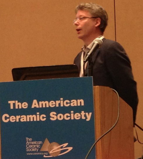 Invited talk